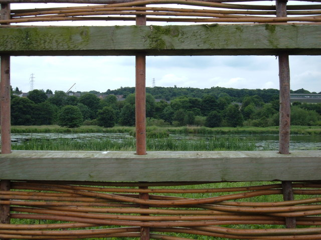 Hide, Rodley Nature Reserve Rodley Nature Reserve is a wetland area built on a former sewage works on the banks of the River Aire. It is supported, amongst other organizations, by The Wildfowl and Wetland Trust.